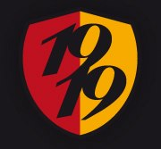 taraji store logo